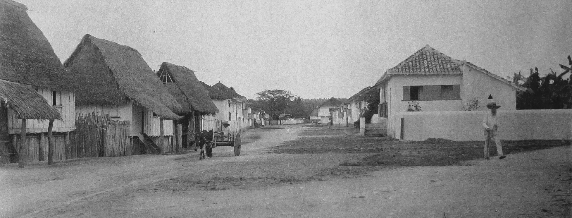 "South Sea cruise 99-1900, Ladrone Islands, Guam, street scene in Agana. Officers' and chiefs' mess on right."